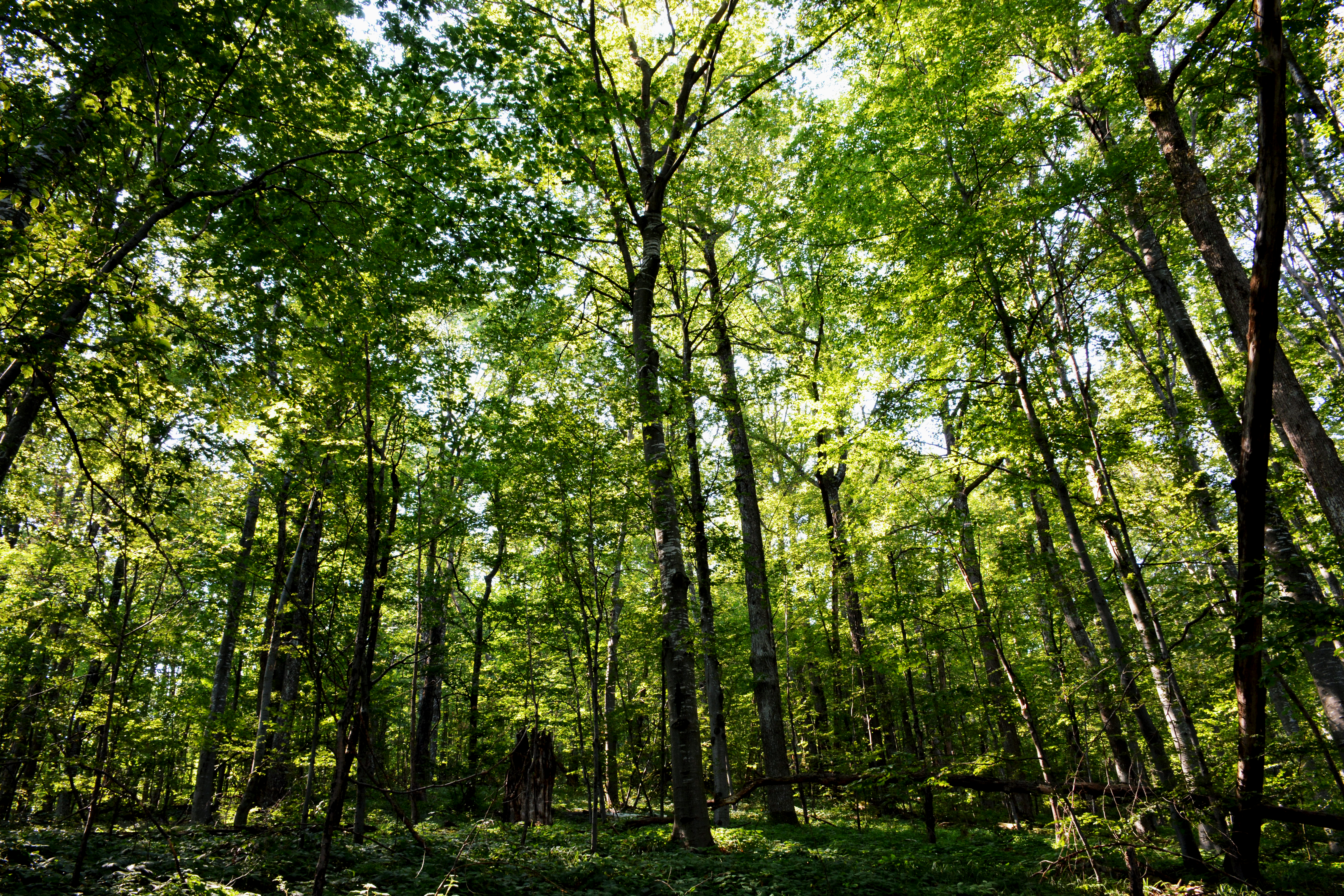 It's school forest in my country - Bulgaria.